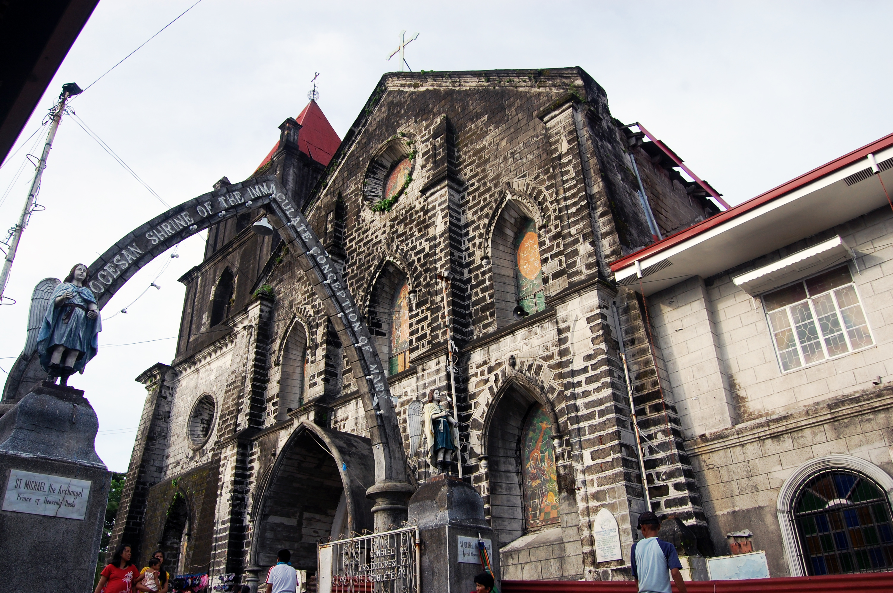 the oldest church in Naic cavite